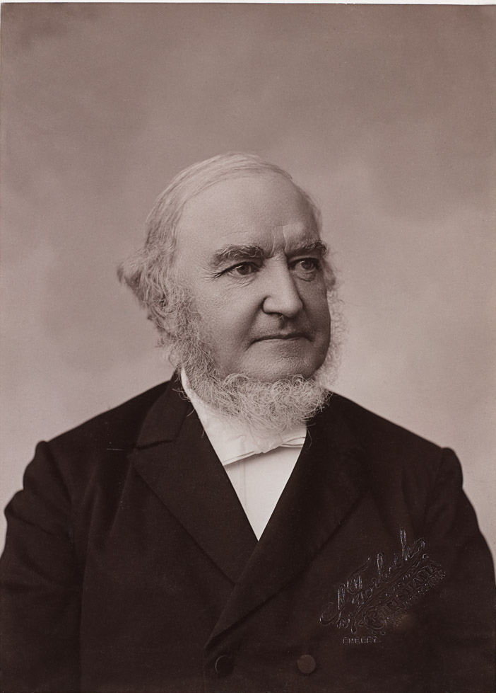 Tittel / Title: Portrett av Torkel Halvorsen Aschehoug Motiv / Motif: Kabinettkort. Fotograf / Photographer: Ludvig Forbech (1865-1942) Sted / Place: Oslo Eier / Owner Institution: Nasjonalbiblioteket / National Library of Norway Lenke / Link: Bildesignatur / Image Number: blds_01007